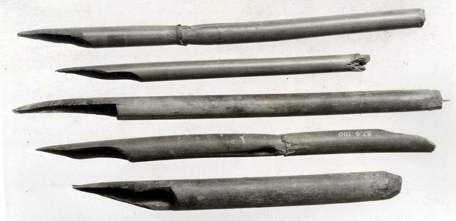 Pen